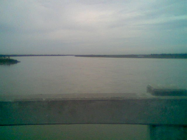 Image of Dhorla River near Kurigram Town. Image taken with Nokia 6020